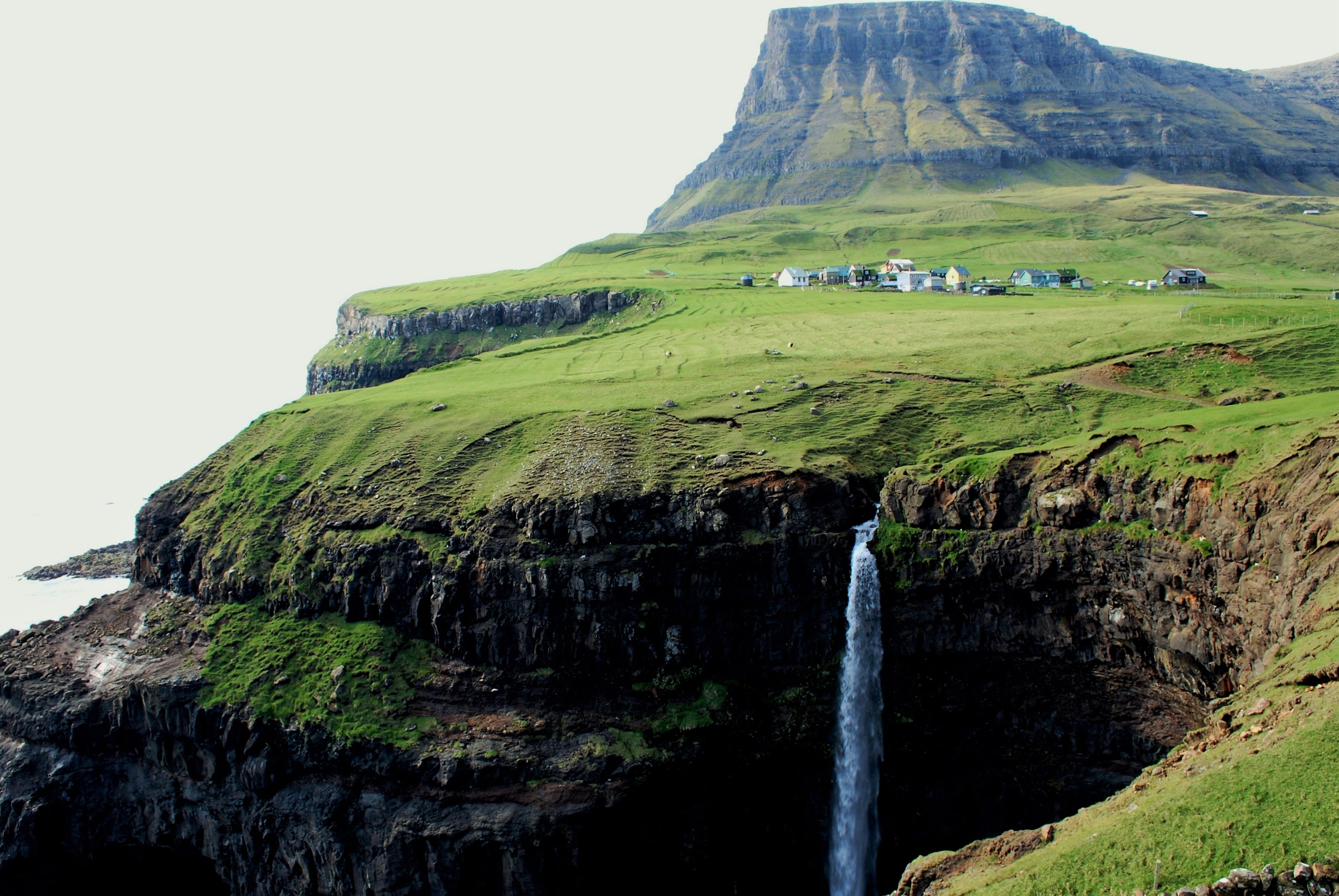 Gásadalur, Vágar, Faroe Islands